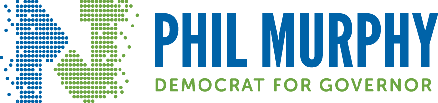 Phil Murphy gubernatorial campaign, 2017